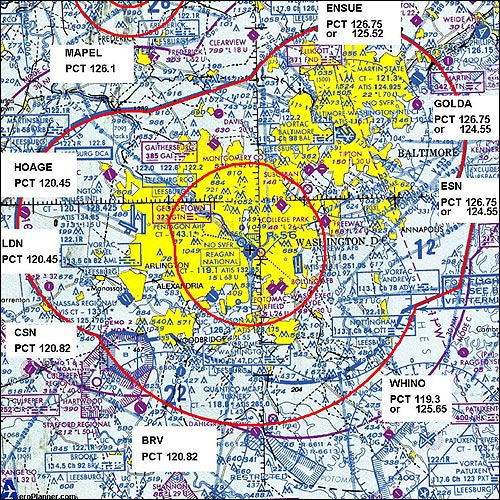 This is a government created image and thus not subject to copyright.